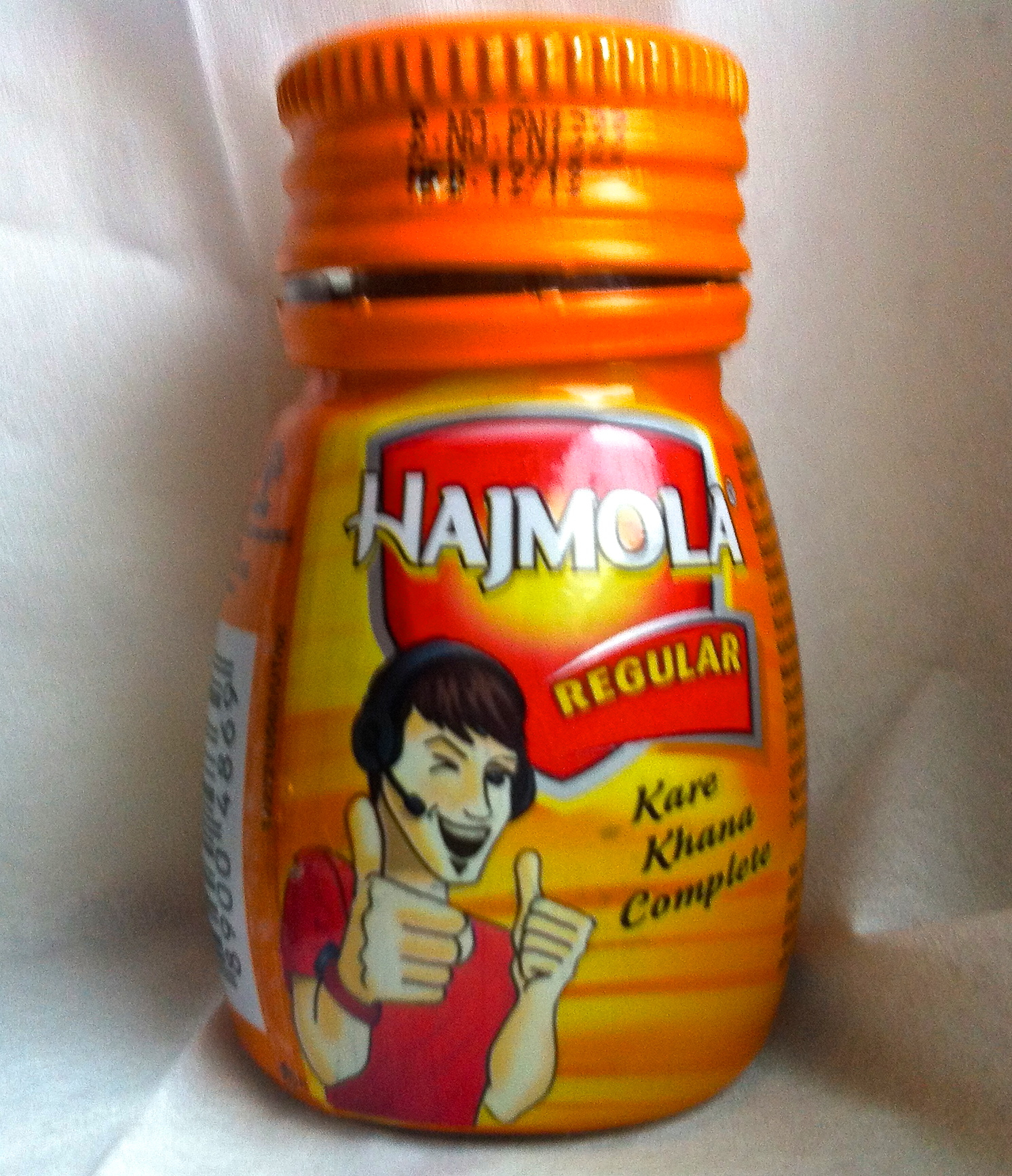 Container of Hazmola